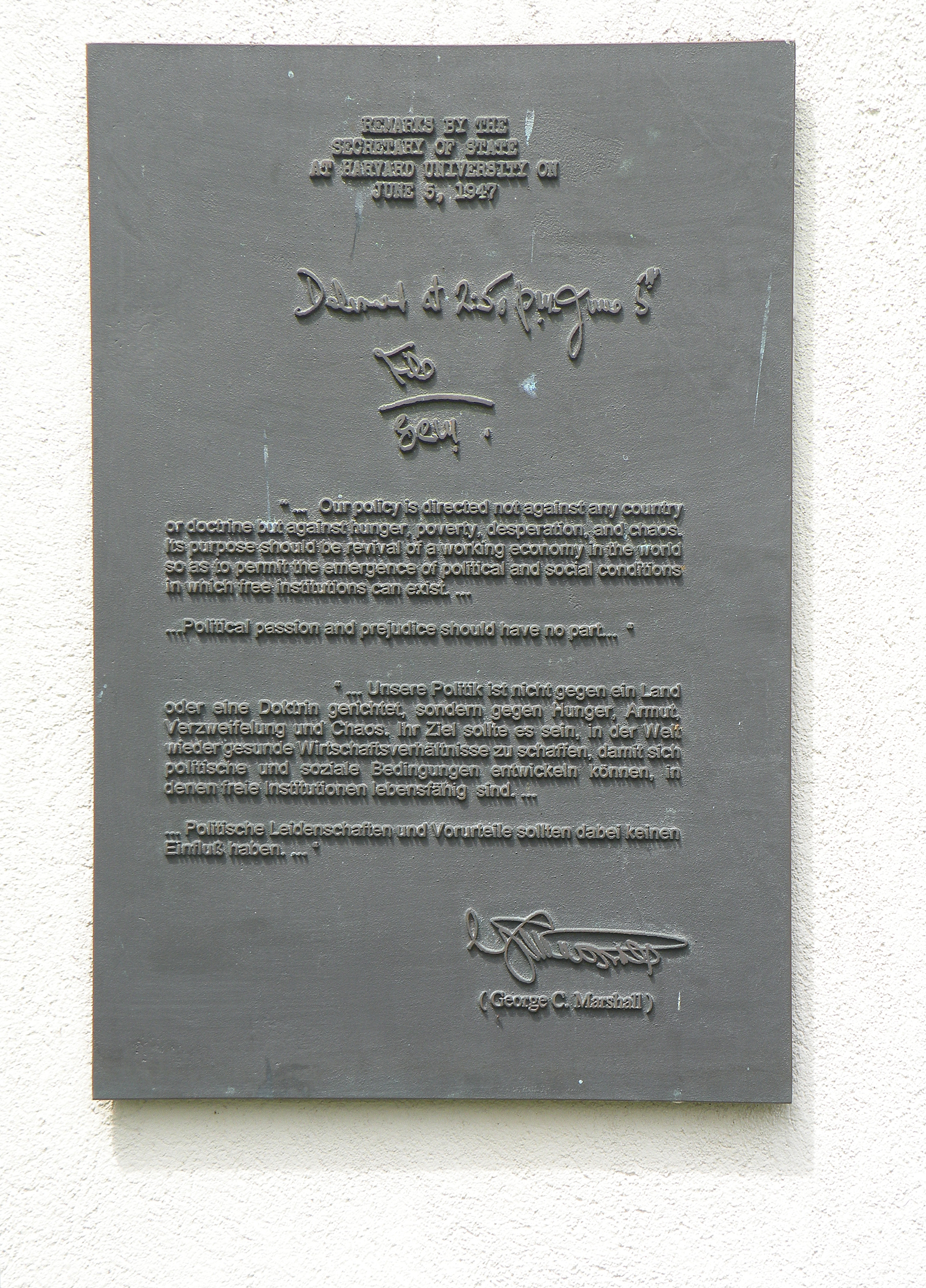 Remarks_by_The_Secretary_of_State.USA.5.06.1947. Plaque in Langwasser.Nuremberg.